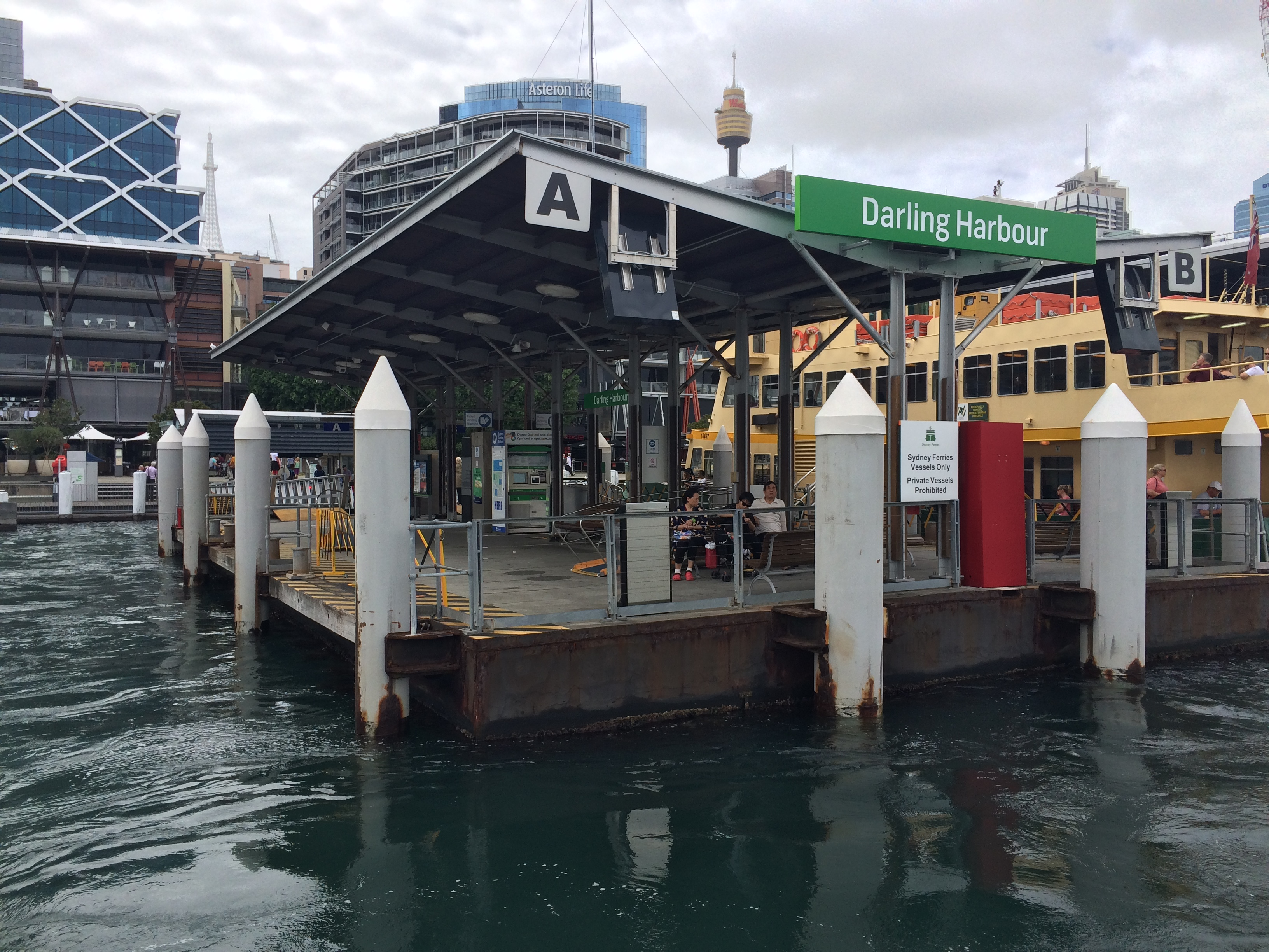 A view towards the Darling Harbour ferry wharf from the water, aboard the Marjorie Jackson. Note the signpost stating "Sydney Ferries Vessels Only, Private Vessels Prohibited". Photograph was taken on 22 March 2015.